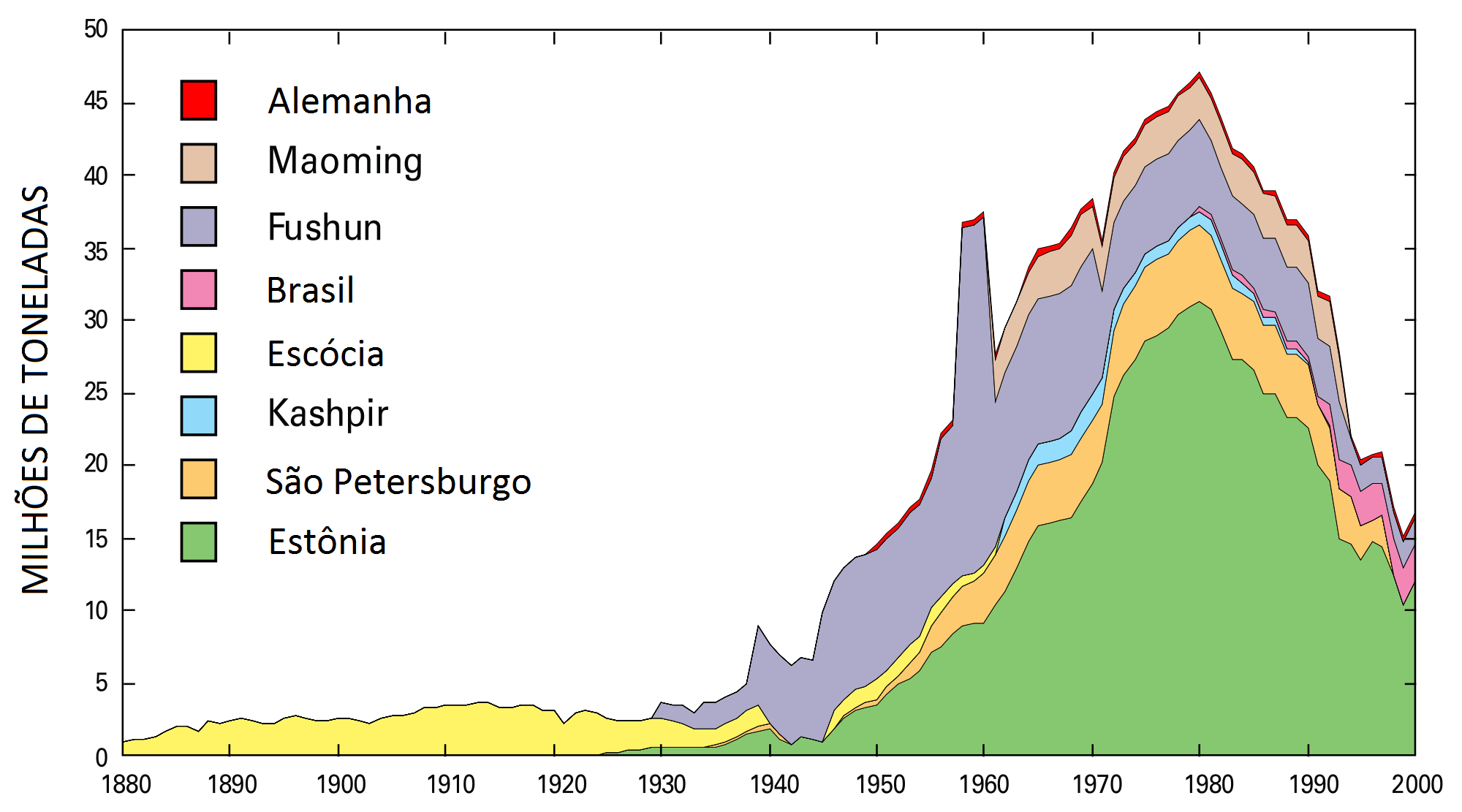 Production of oil shale in millions of metric tons from 1880 to 2000